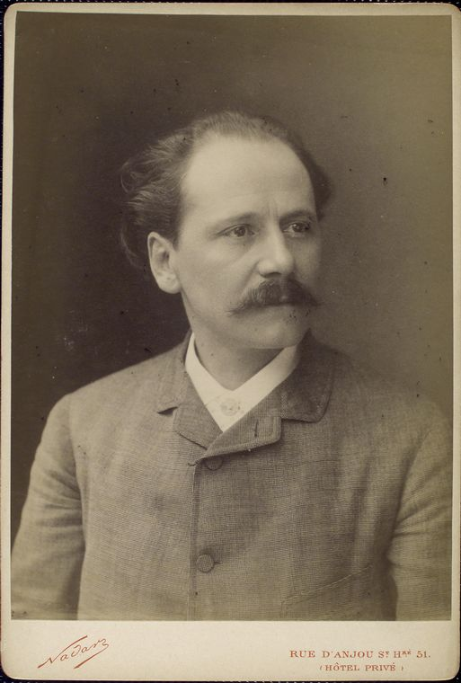 French composer Jules Massenet (1842–1912), in his early career